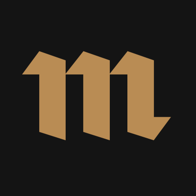 Meduza Logo